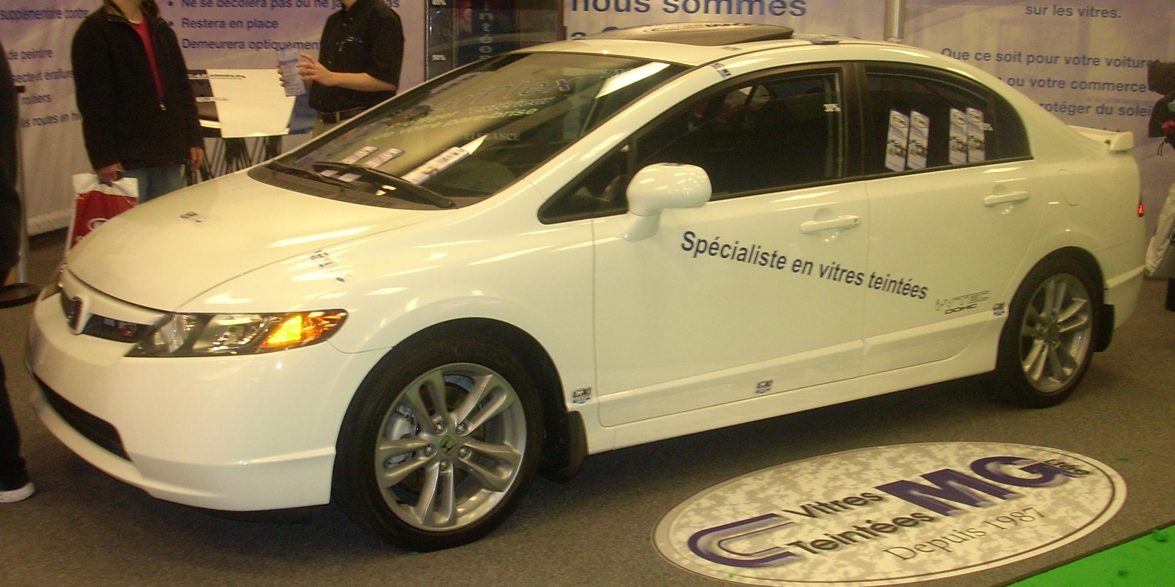 2008 Honda Civic Si photographed at the Montreal Auto Show.